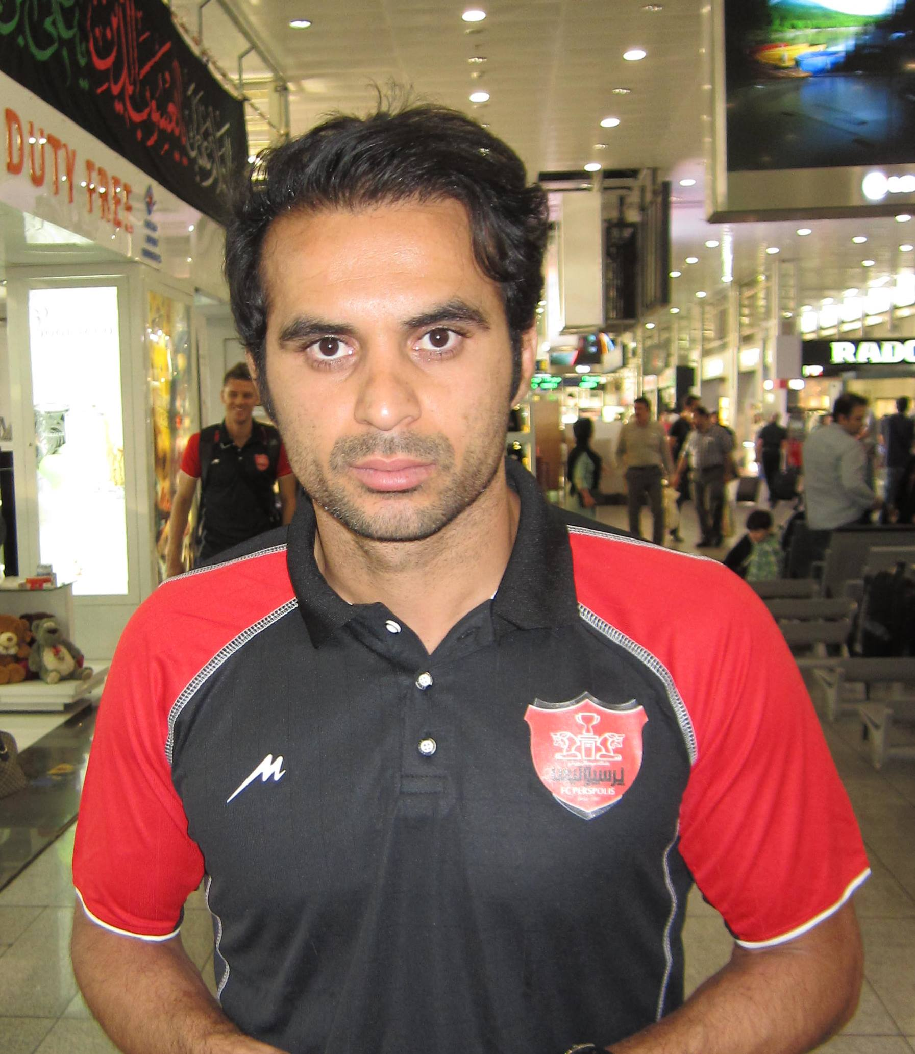 Hadi Norouzi at Tehran Imam Khomeini International Airport